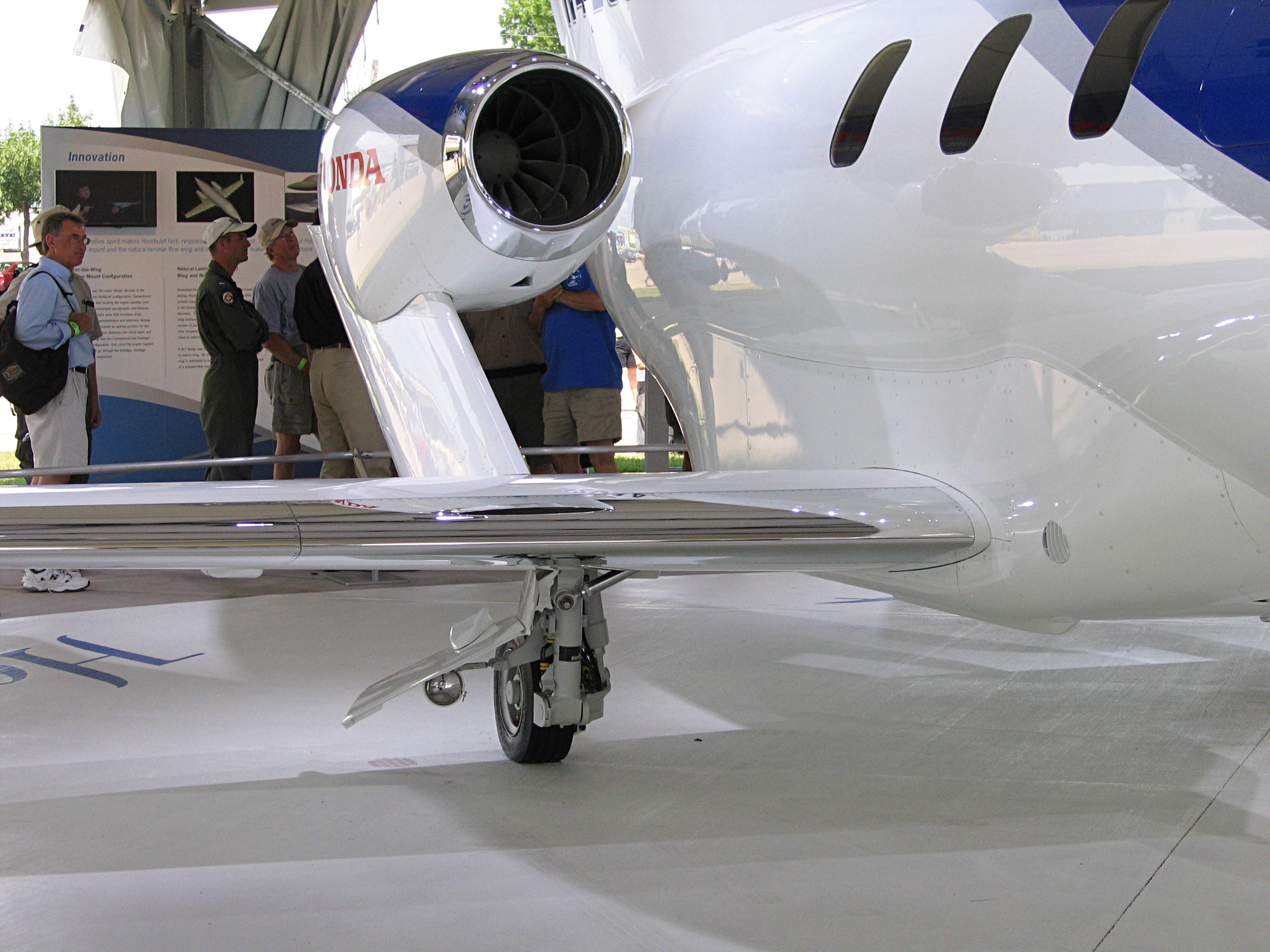 HondaJet, the HF120 engine and an engine pod on the right wing.